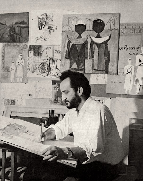 Jawad Saleem in the late 1950s